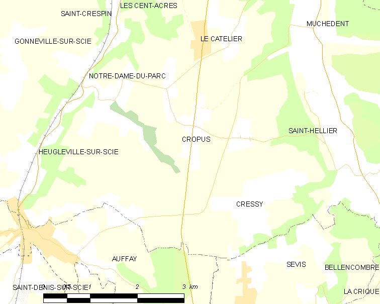 Map of French municipality Cropus